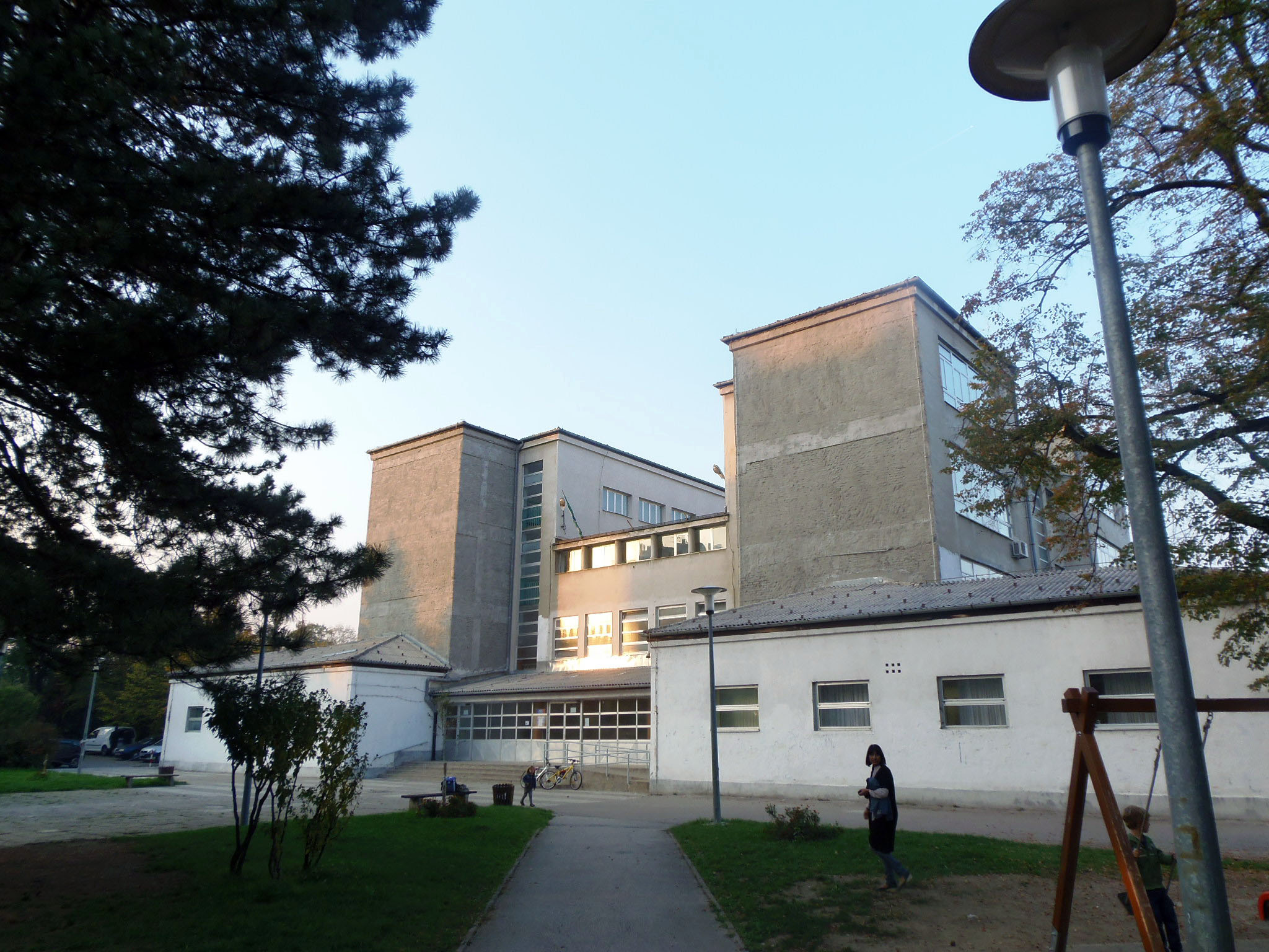 An elementary school in Zagreb, Croatia by Ivan Zemljak (modernist architect)